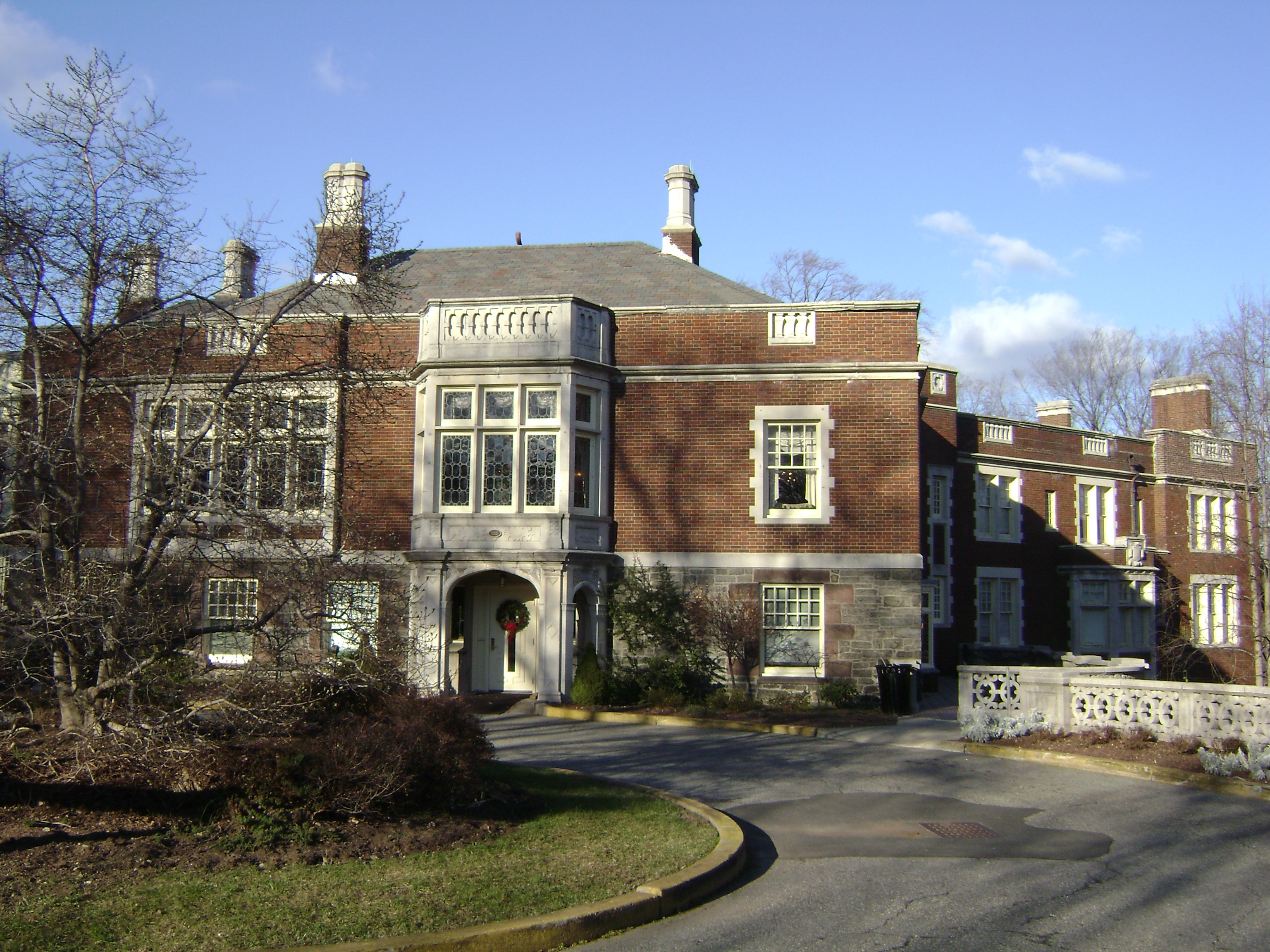 Hobart Manor (Haledon Hall), on the campus of William Paterson University in Wayne, New Jersey, is seen from the front. The house, which dates to 1877, was the centerpiece of the former Ailsa Farms estate, which was sold in 1948 to create the university.